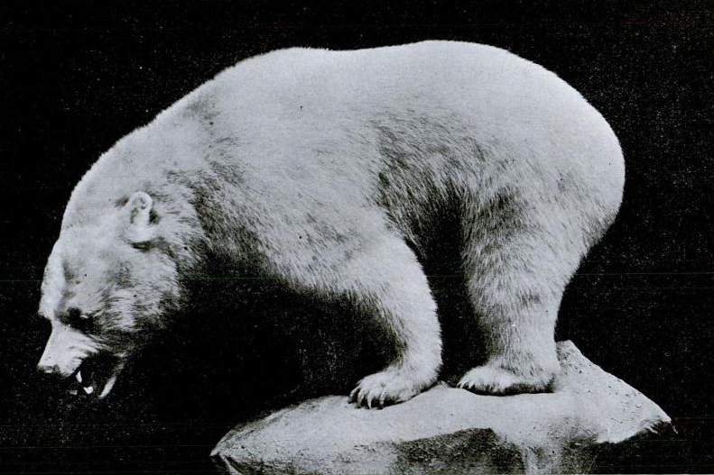 Side View of the inland white bear (Ursus kermodel Hornaday). From a photograph of the mounted specimen in the Carnegie Museum, Pittsburg, Pa. The animal was prepared by Frederic S. Webster